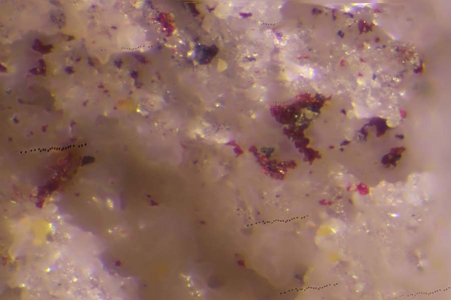 An extremely rare thallium mineral in crystallized form (IMA 2013-58) as light red crystals. From: Monte Arsiccio Mine, Apuan Alps, Tuscany, Italy